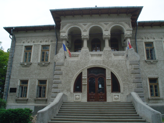 Ion Irimescu Art Museum.